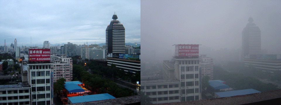 Two photos taken in the same location in Beijing in August 2005. The photograph on the left was taken after it had rained for two days. The right photograph shows smog covering Beijing in what would otherwise be a sunny day.